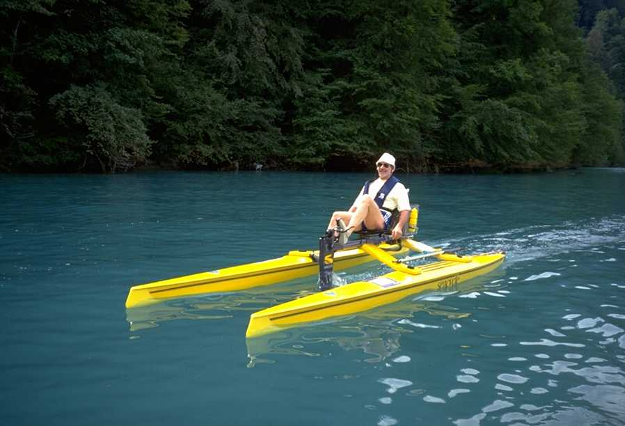 Modified Seacycle human-powered catamaran with propeller drive